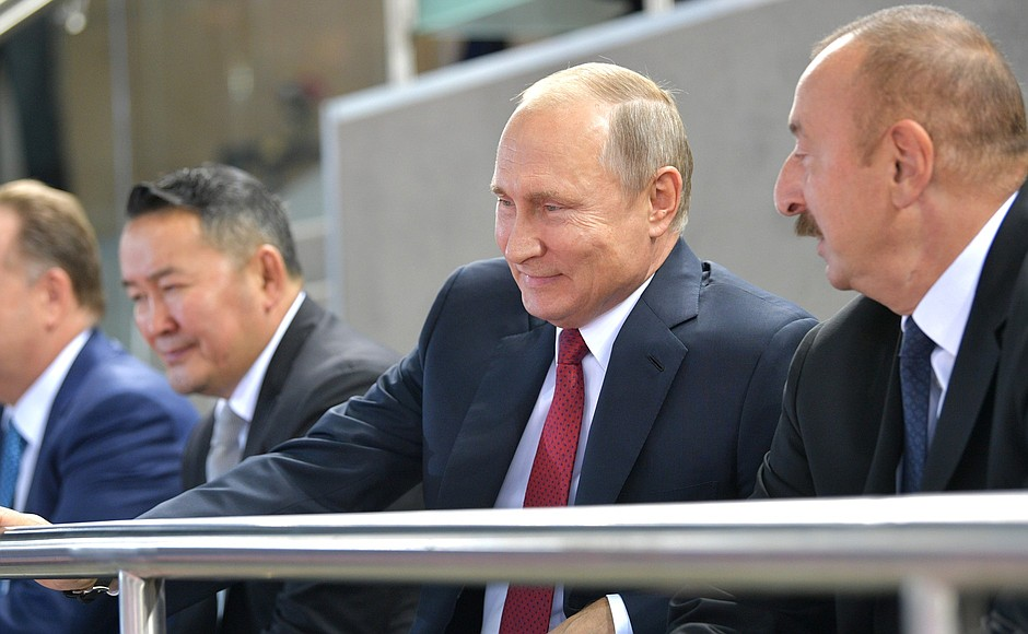 Visiting the World Judo Championship in Baku 2018. In the photo, from left to right: President of the International Judo Federation Marius Wieser, President of Mongolia Haltmaagiin Battulga, President of the Russian Federation Vladimir Putin, President of Azerbaijan Ilham Aliyev